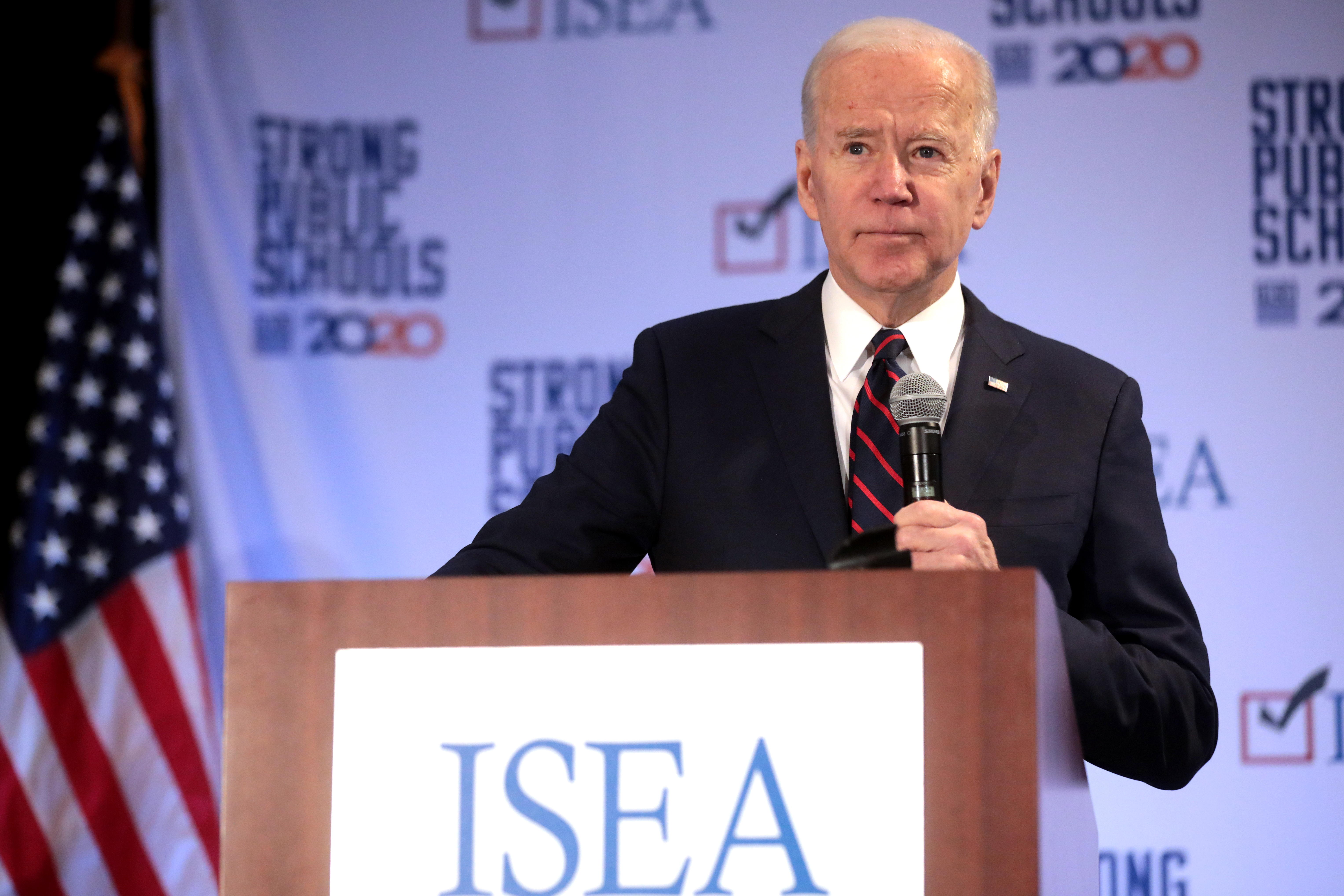 Former Vice President of the United States Joe Biden speaking with attendees at the 2020 Iowa State Education Association (ISEA) Legislative Conference at the Sheraton West Des Moines Hotel in West Des Moines, Iowa.